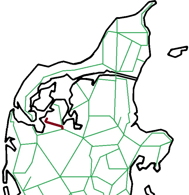 Map of railways in the northern Jutland in Denmark with the private railway Skive-Vestsalling Jernbane in brown.